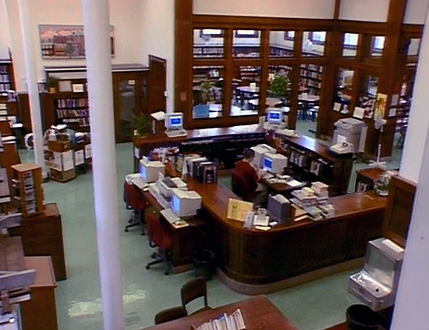 The old massive central front desk 'battle ship design' at the Carnegie Library of Pittsburgh South Side Branch, one of the first library's with open stacks. Desk removed in 2011.